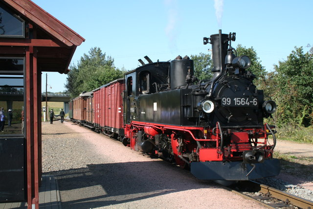 Narrow gauge train at Friedewald Bad